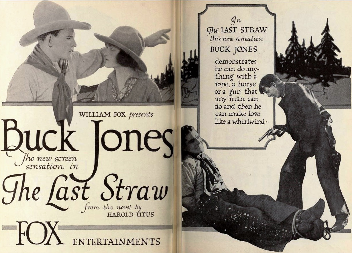 Advertisement for the American western film The Last Straw (1920) with Buck Jones and Vivian Rich, on pages 14 and 15 of the February 21, 1920 Exhibitors Herald.